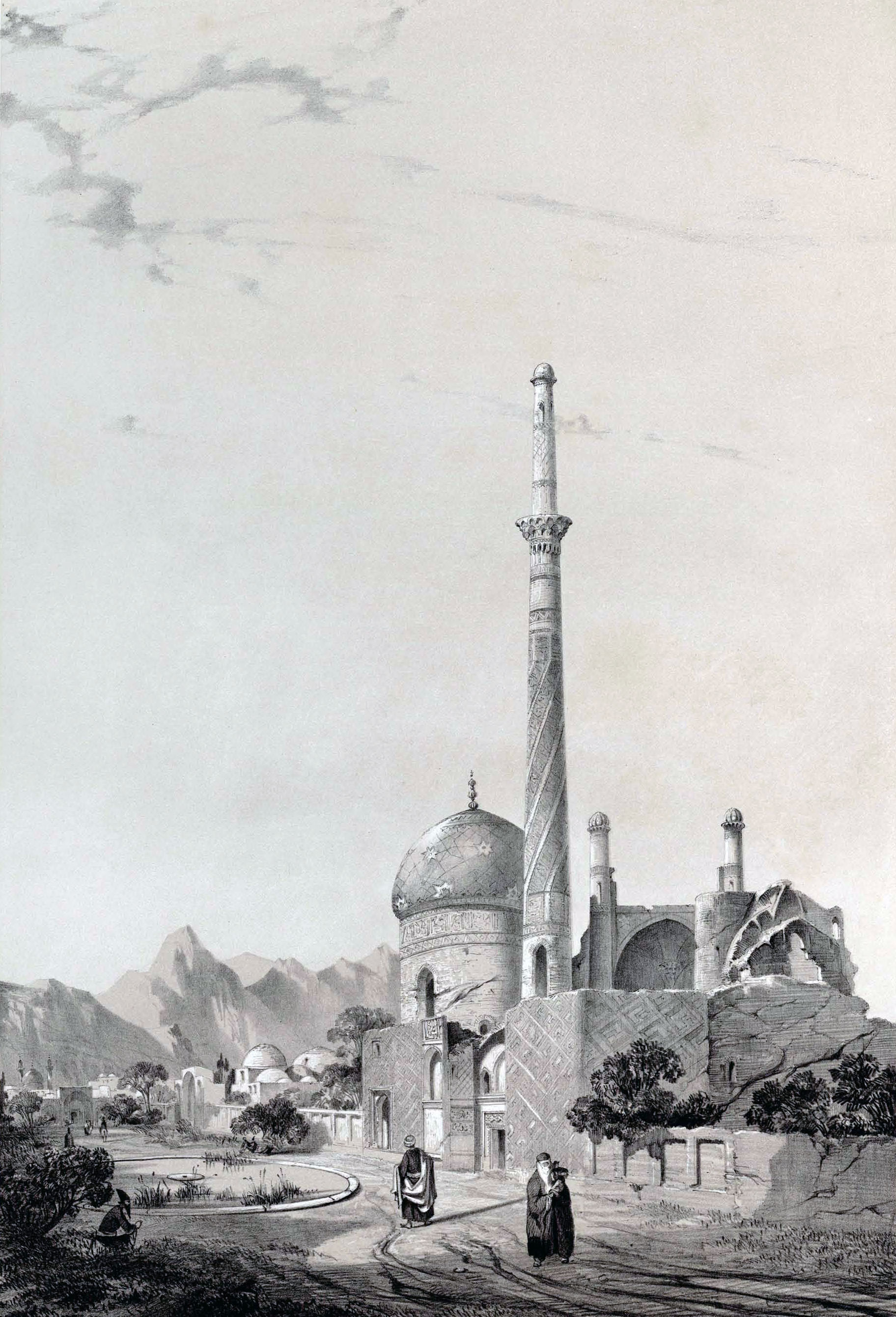 Baba Sukhte (Burnt father) Mosque (Bagh-e-Ghoushkhane minaret), Isfahan